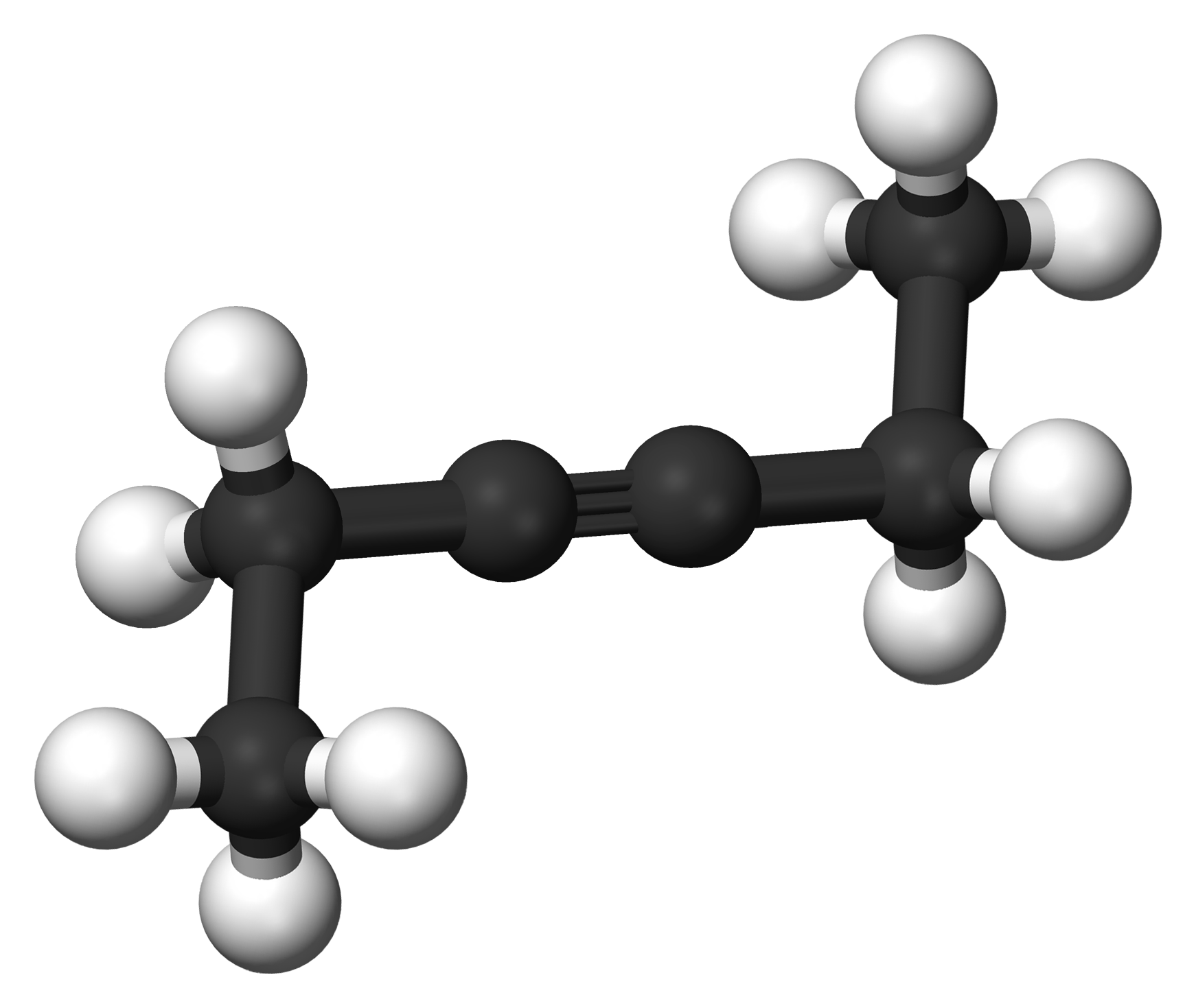 Ball-and-stick model of the 3-hexyne molecule (also known as diethylacetylene), a six-carbon internal alkyne.